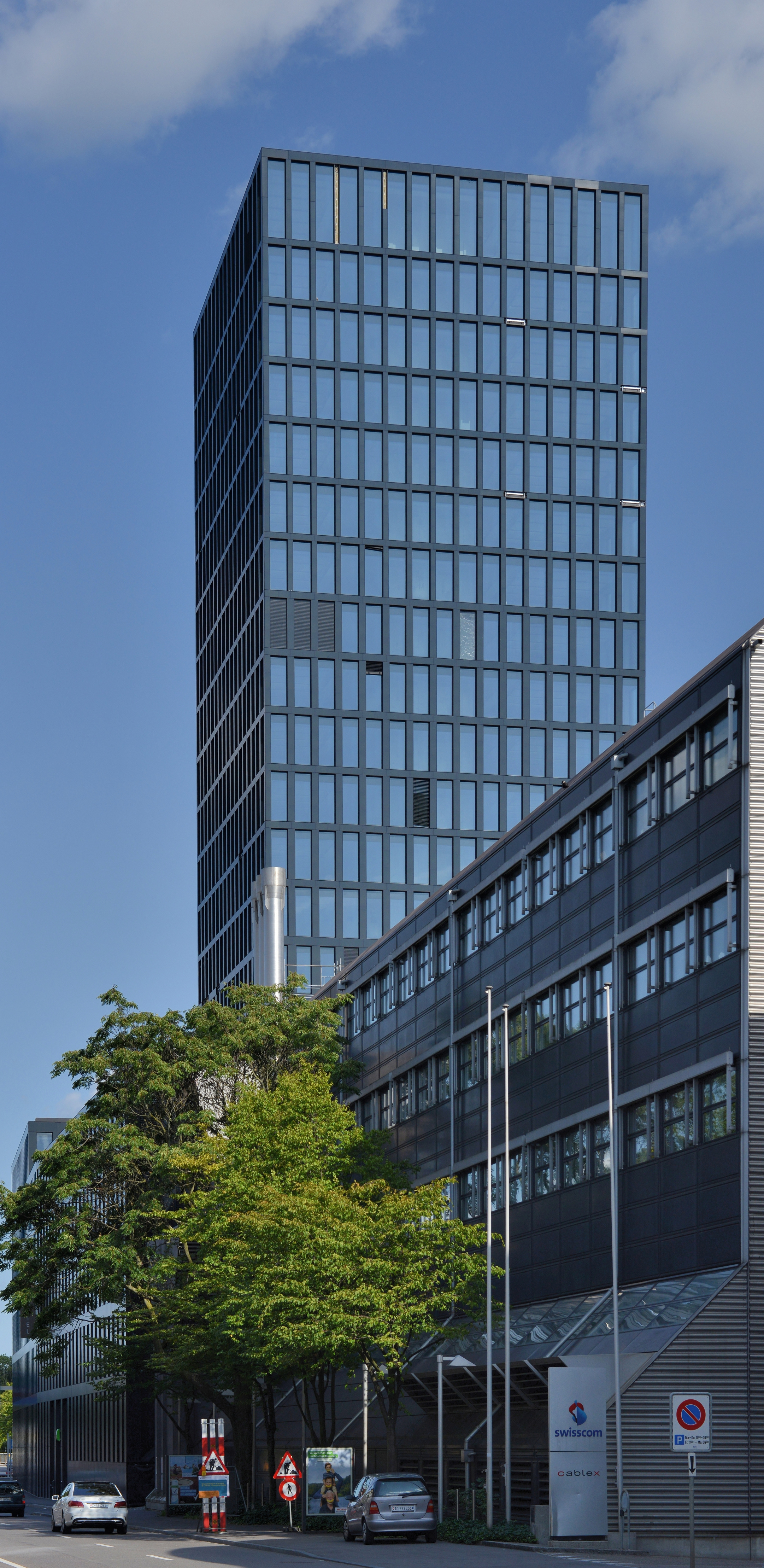 Basel: Grosspeter Tower